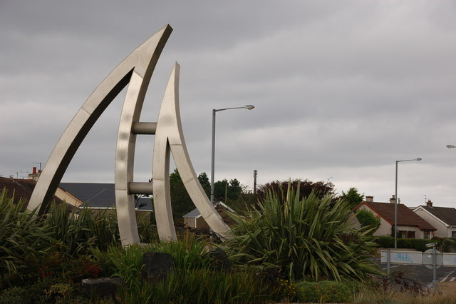 The Burnside roundabout, Portstewart. This is the Burnside roundabout on the Coleraine Road, Portstewart. The sculpture represents the “Red Sails in the Sunset” from the song of the same name.